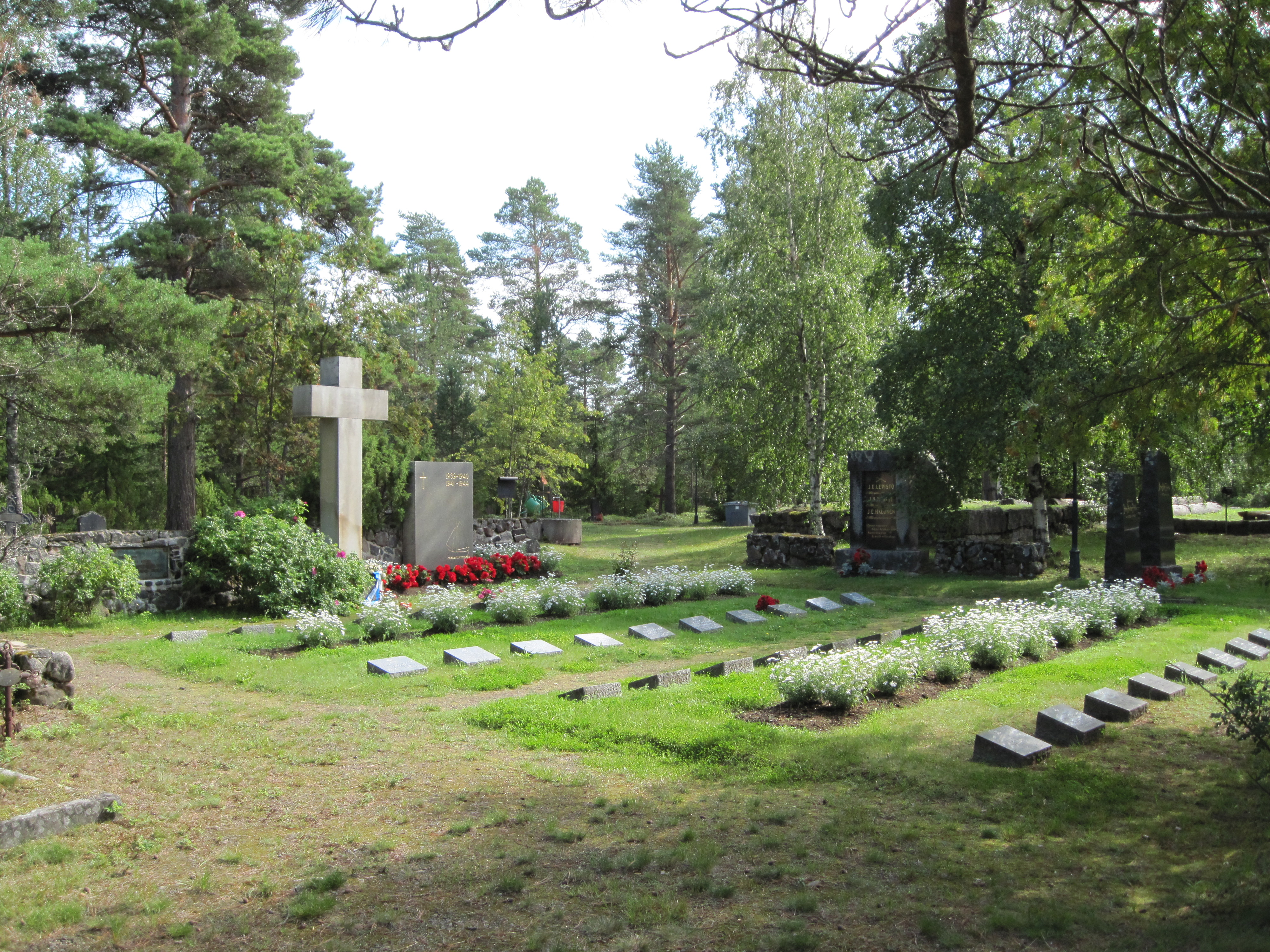 Military cemetary at Hailuoto church in Hailuoto, Finland